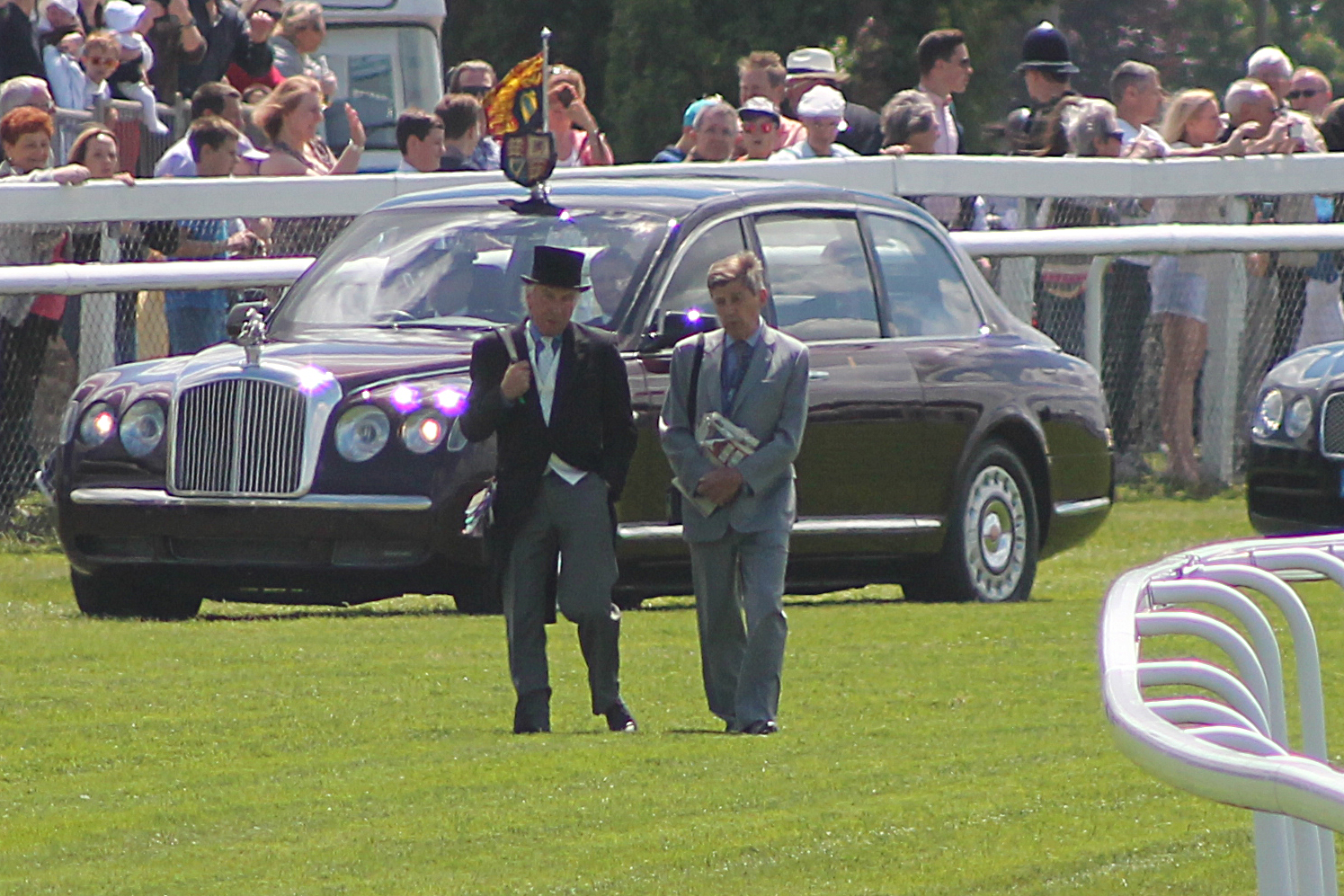 008 Epsom Derby 2015 - Brough and the Queen Epsom Derby